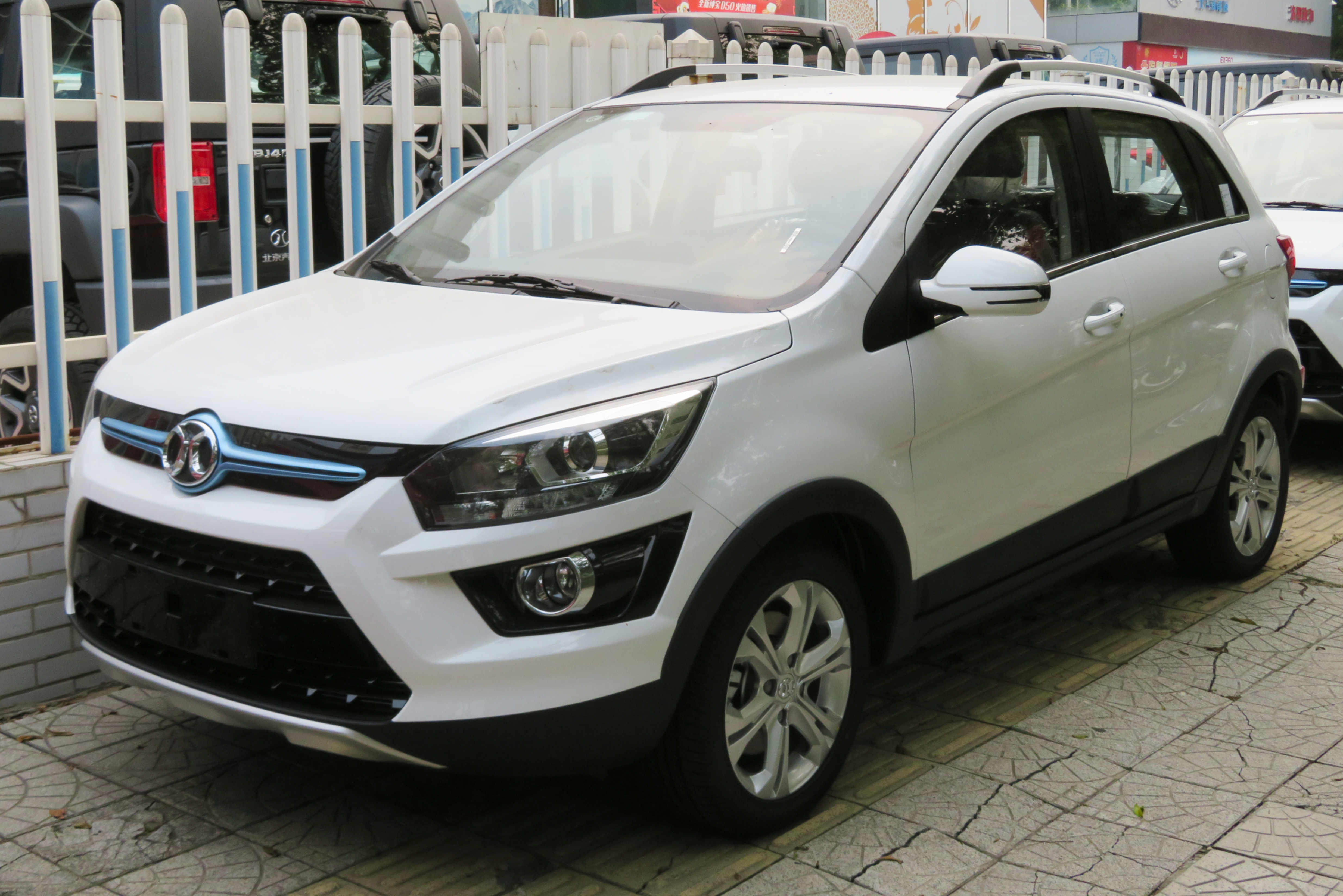 A 2018 BJEV EX360 (Senova X25) photographed at a BAIC dealership, in Luoyang, Henan province, China